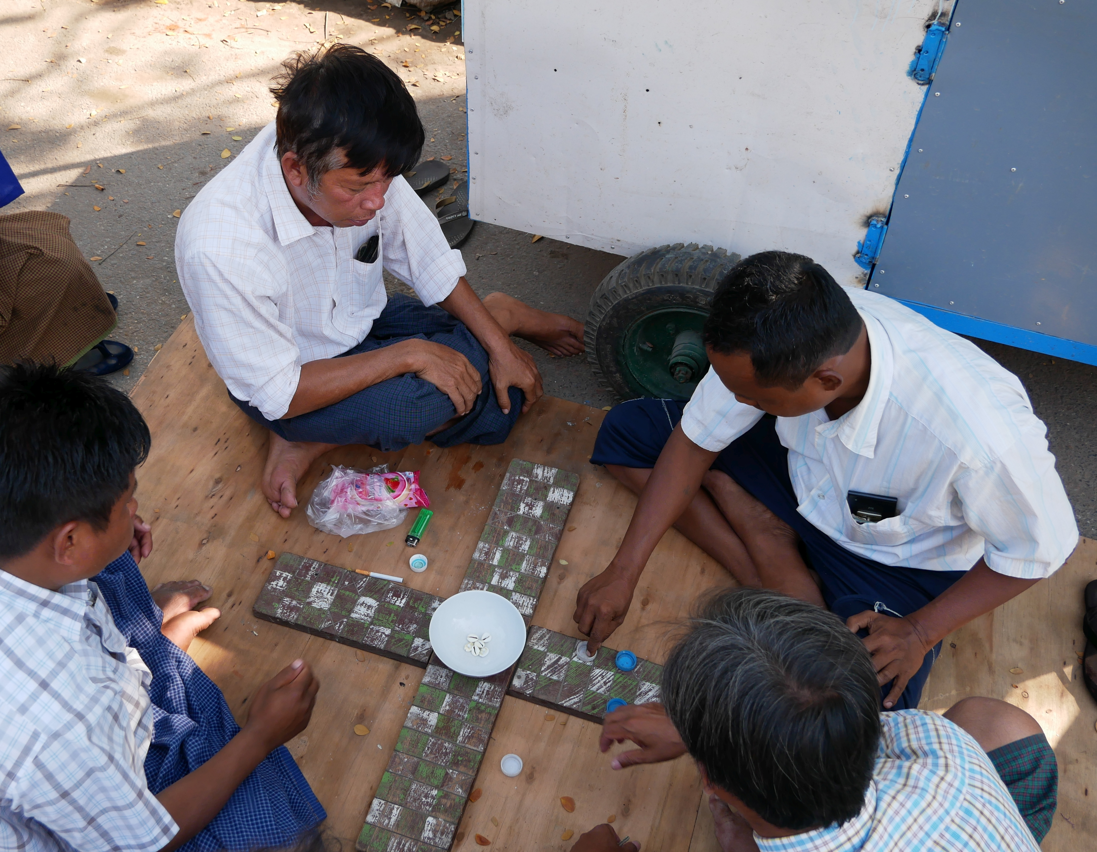 Pachisi players in Mandalay, Myanmar